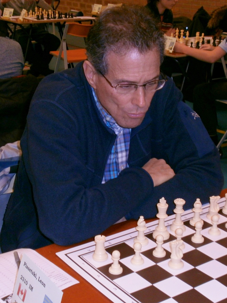 Leon Piasetski playing in the Groningen Chess Festival 2012 in Groningen (the Netherlands)